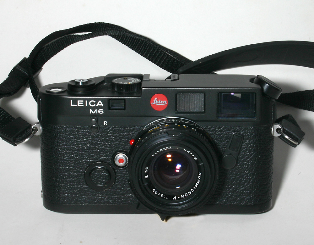 Leica M6 series Author: E. Wetzig (elya)